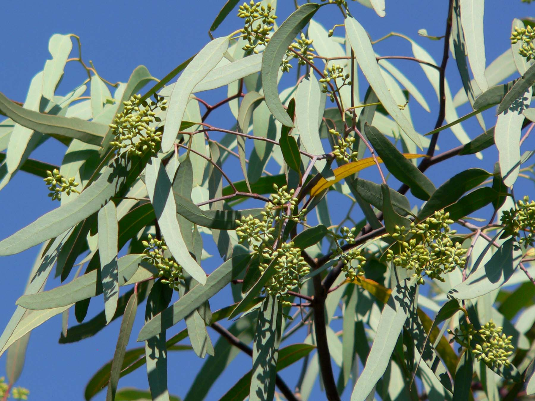 Photo of Eucalyptus microtheca at the Springs Preserve garden in Las Vegas, Nevada